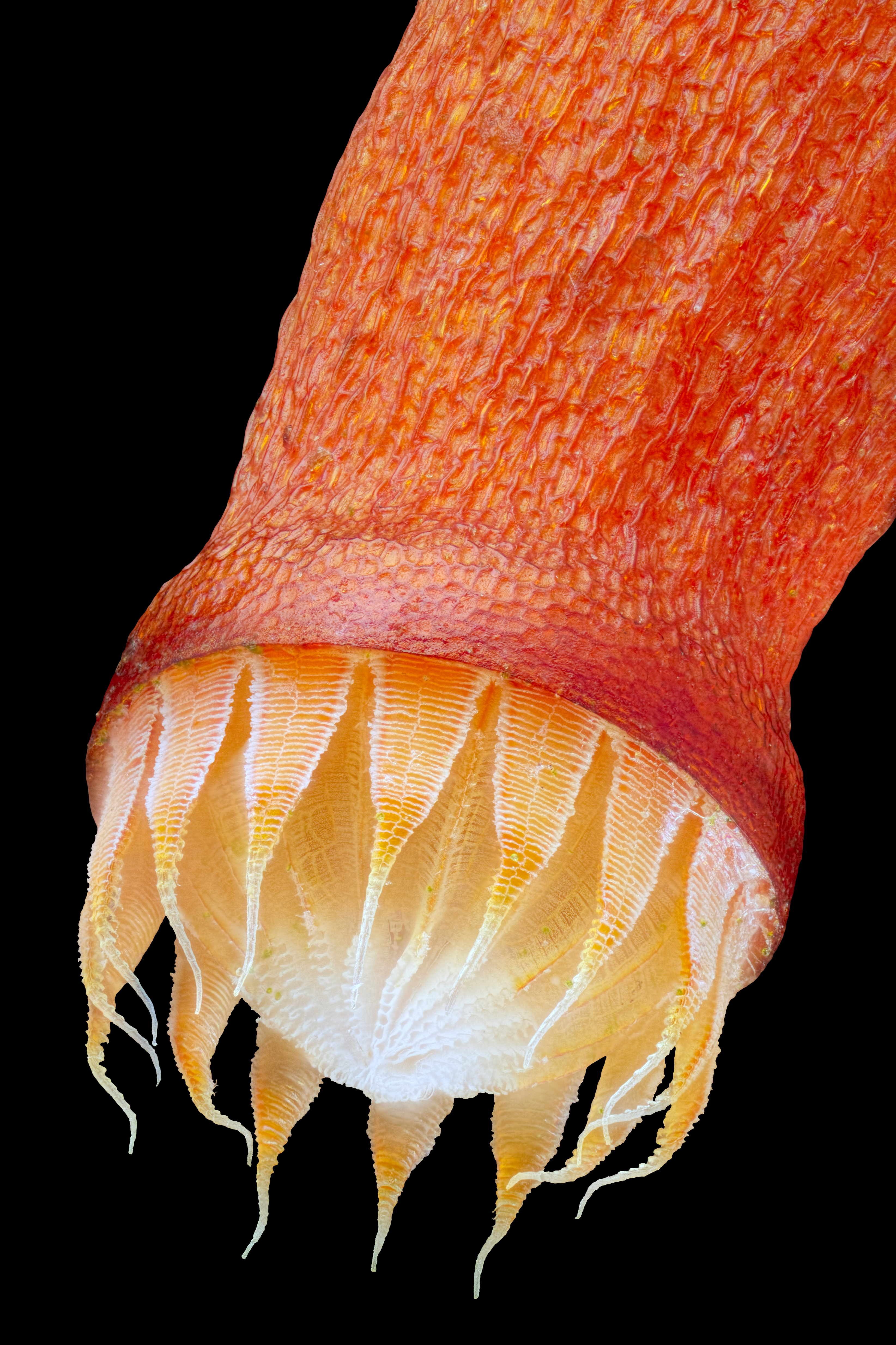 Mouth of sporophyte of the moss Bryum capillare, showing the open peristome (comprising endostome and exostome) which controls spore release. The real-world diameter of the subject is about 1.1 mm. The image is a composite stack of about 200 original images.